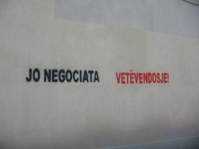 Image obtained from VETEVENDOSJE! website, URL: The website is in Albanian language.